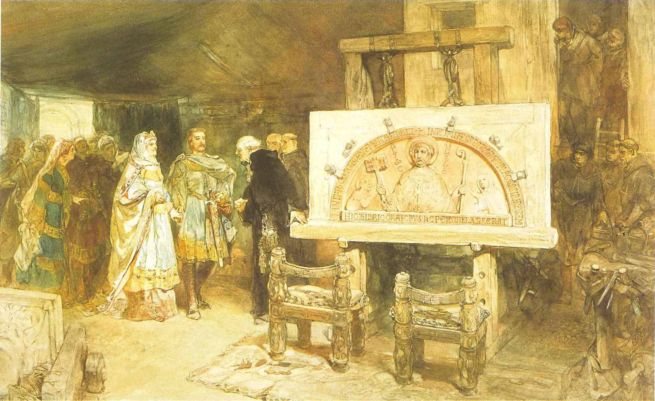 Painting of Dirk VI, Count of Holland and his mother Petronella visiting the sculpture workshop of Egmond Abbey. ("Gravin Petronella met haar zoon Dirk bezoeken de werkzaamheden voor de kerk te Egmond (12de eeuw)") watercolor painting. 38,5 by 61,5 cm. Archives of the Dutch Royal House, The Hague